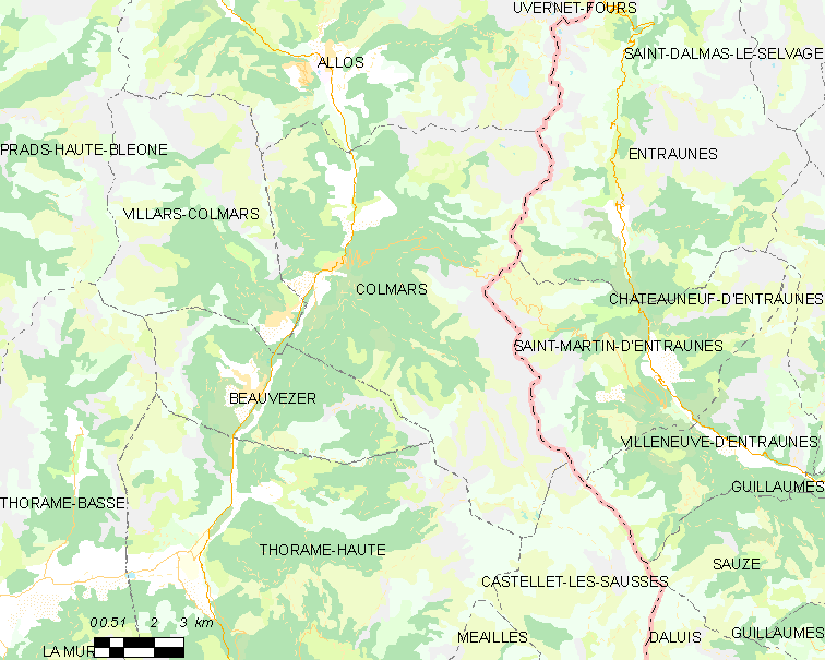 Map commune FR insee code 04061.png Légende